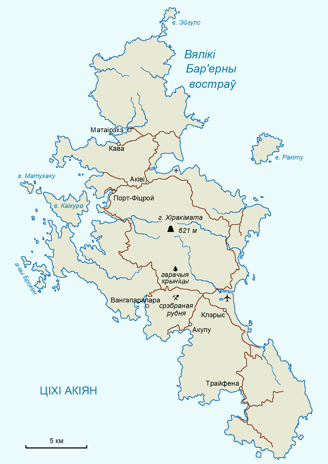 Great Barrier Island map in Belarusian